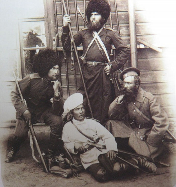 Amur Cossaks